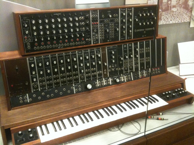 The 1st commercial Moog synthesizer (Stearns 2035) commissioned by the Alwin Nikolais Dance Theater of NY in 1964. Now it is part of Stearns Collection, University of Michigan Posted by